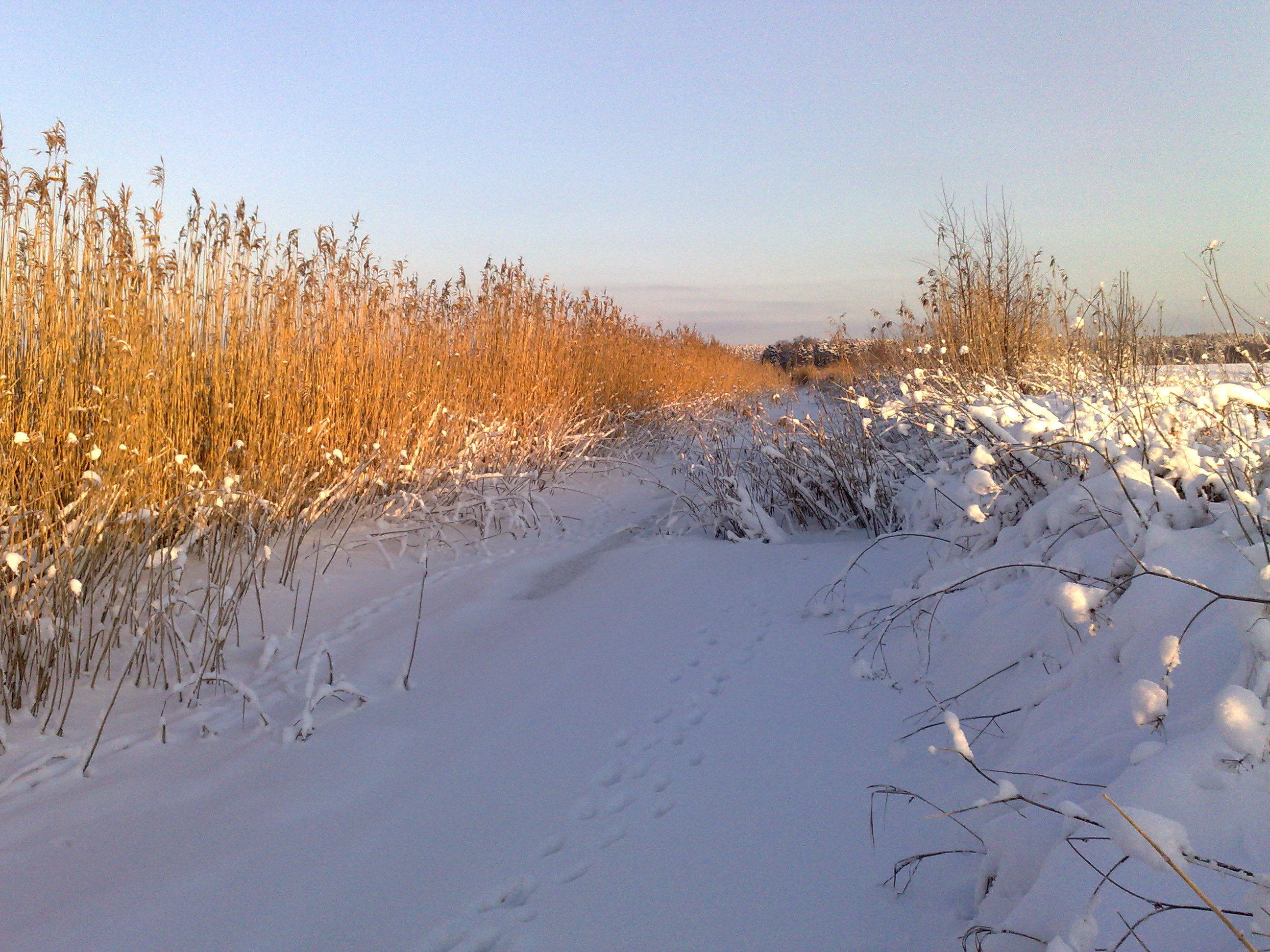 Vaarjoki is a river in Finland Proper, Finland. Its origin is in Naantali and Masku, and it flows into the sea. Temperature minus 15 degree Celsius.